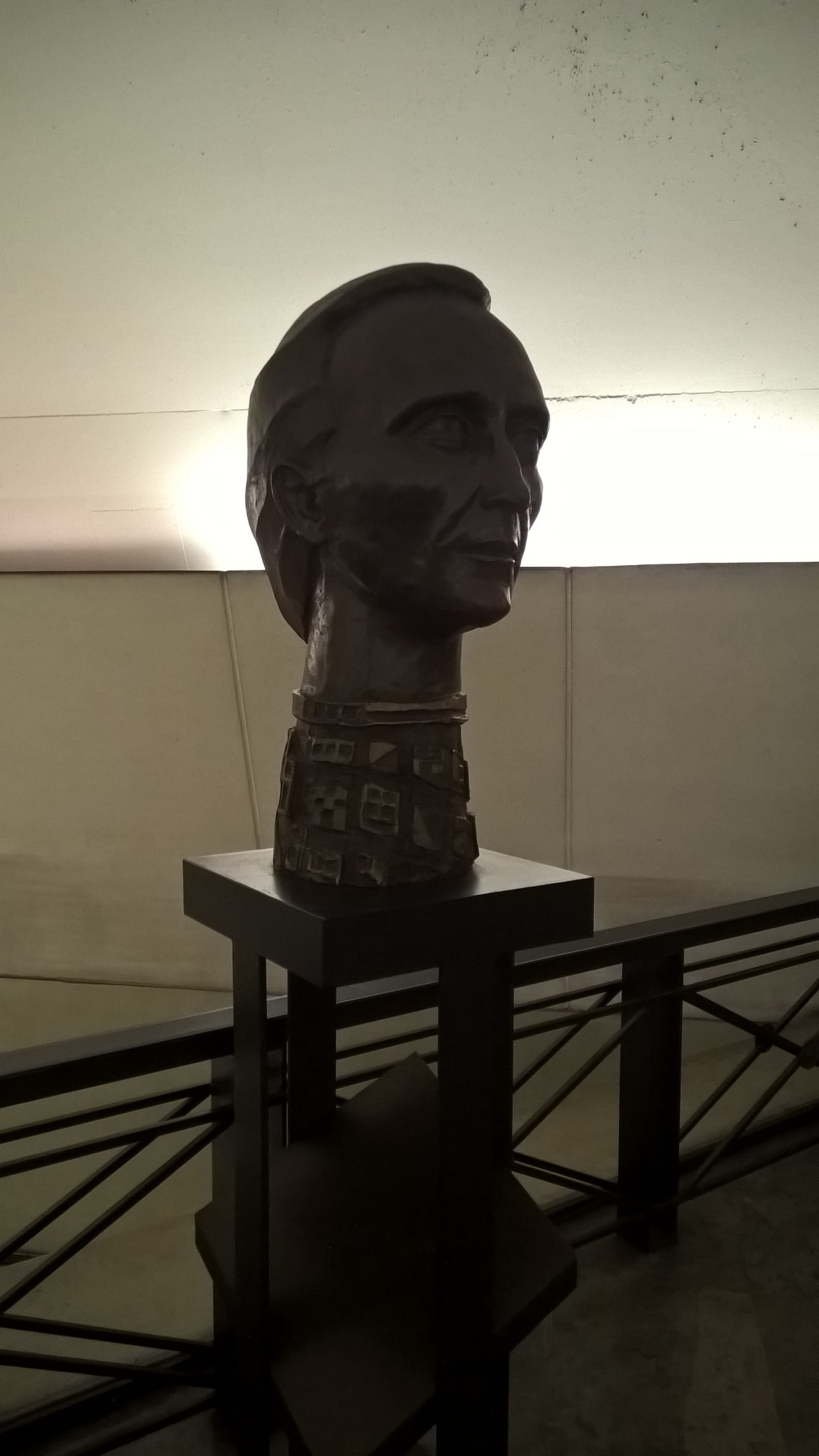 Árpád Szenes head, sculpture at the Rato Metro Station, Lisbon